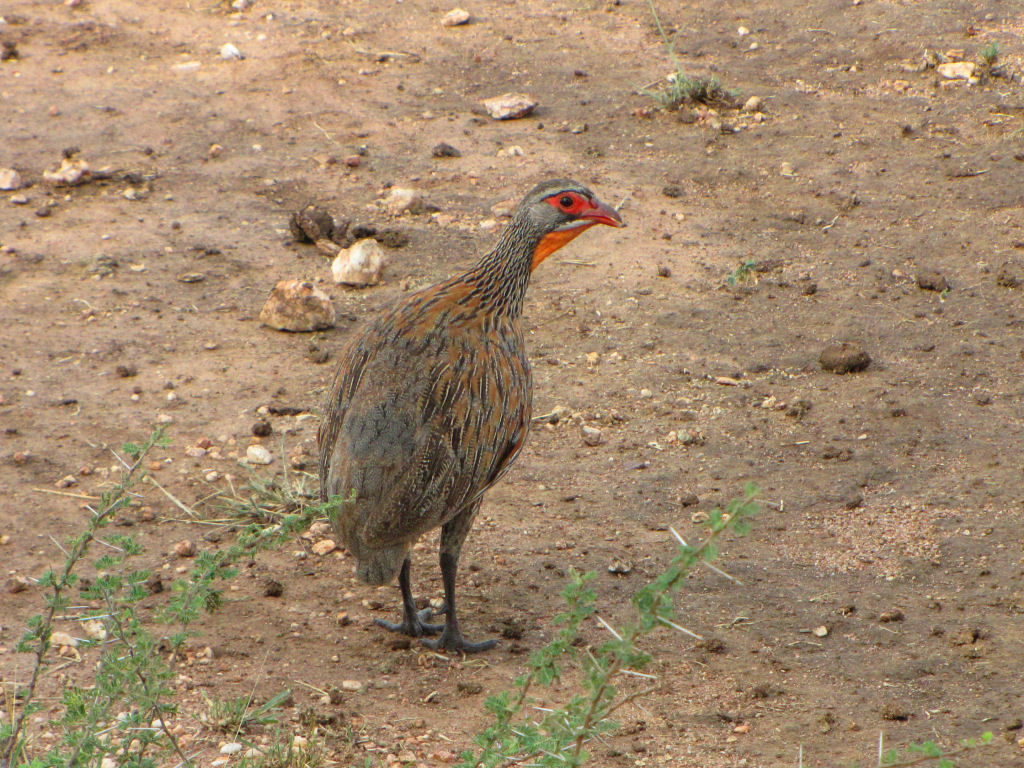 Grey-breasted Spurfowl (Pternistis rufopictus) taken in Serengeti Park, Tanzania